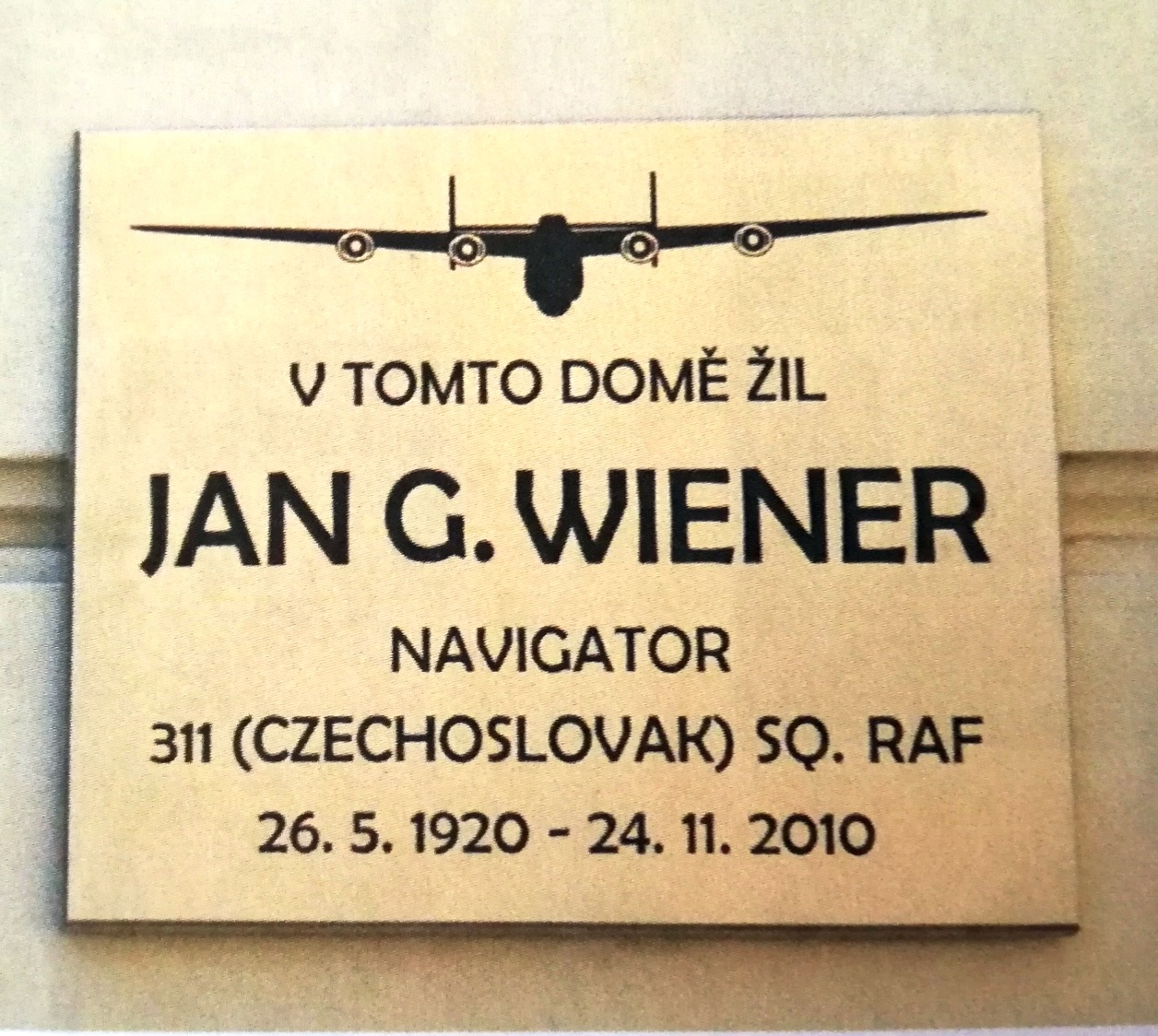 Commemorative plaque: Air Force Colonel Jan G. Wiener (* May 26, 1920, Hamburg - November 24, 2010, Prague) - RAF pilot from World War II and a political prisoner of the communist regime. The memorial plaque is located at the Prague house "U zlatých nůžek" (at: Na Kampě 494/6; 118 00 Prague - Malá Strana), where Jan G. Wiener before his emigration to the USA (at the turn of the 1950s and 1960s, 20 century) lived.